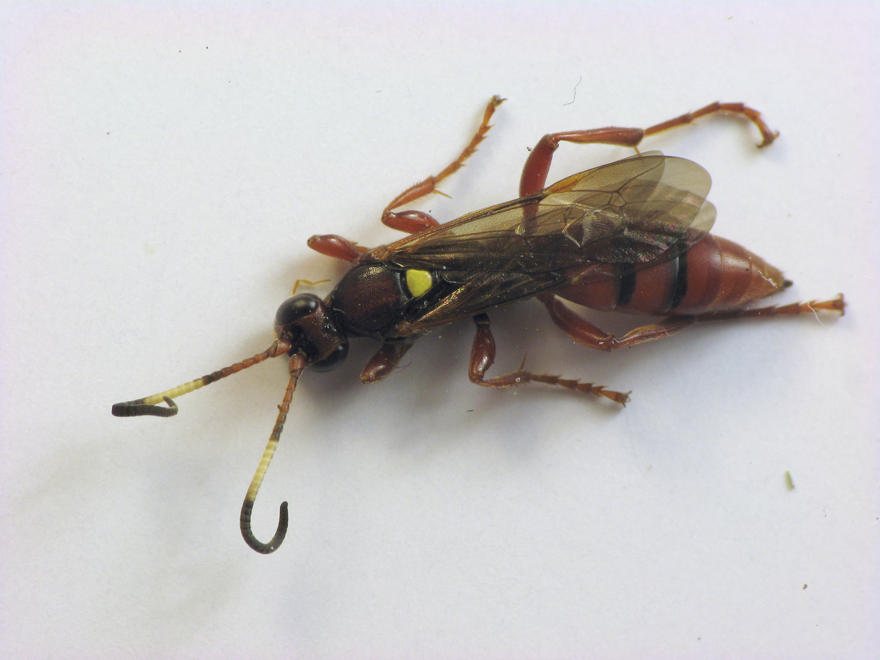 Female Ichneumon laetus hibernating under bark. Size: 14 mm. Peace Valley Nature Center, Bucks County, Pennsylvania, USA.